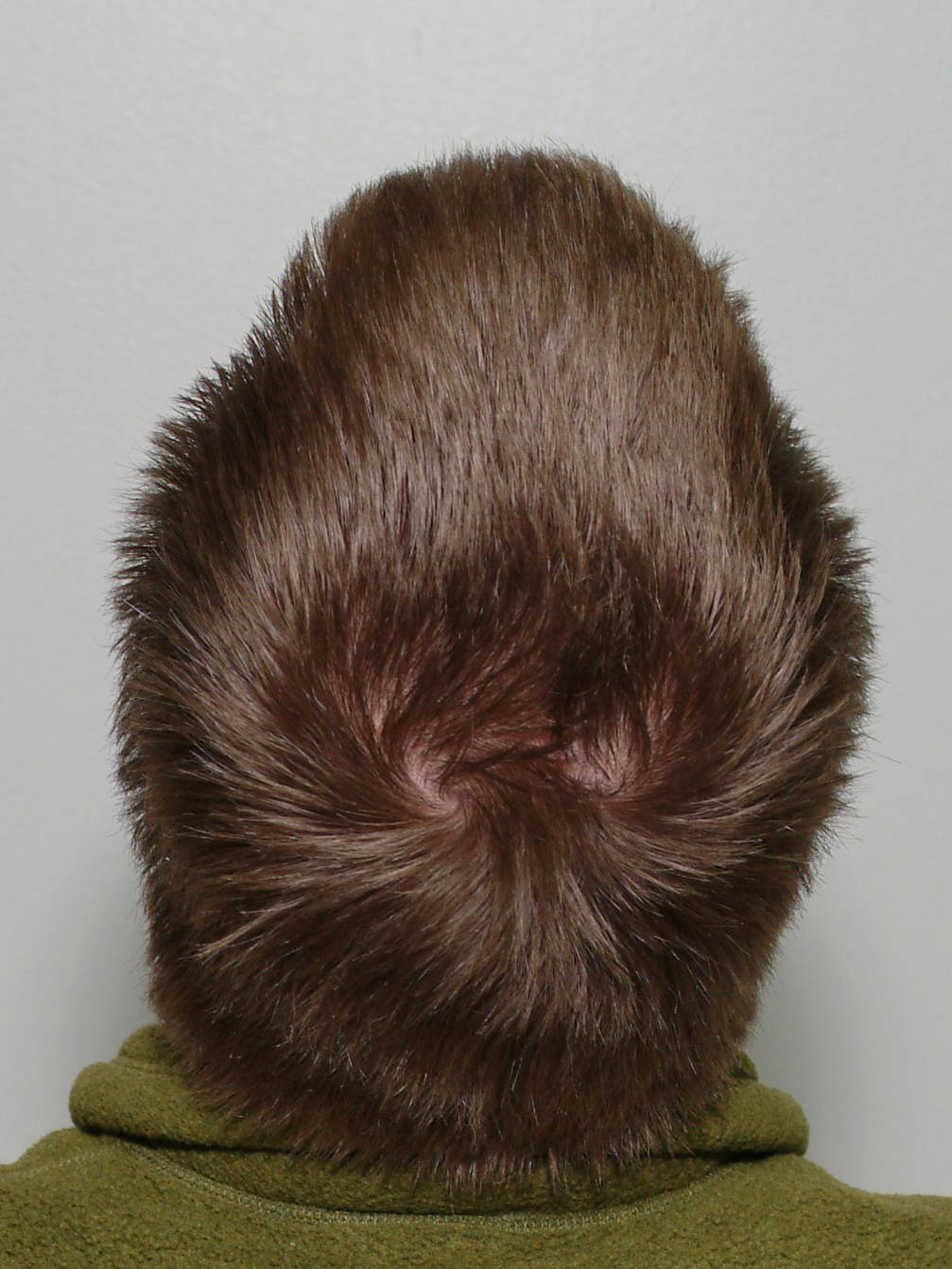 A double whorl hair pattern, seen on User:HorsePunchKid's head.